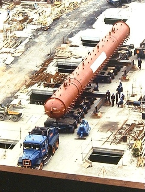 Drax Power Station One of the boiler steam drums it weighs in excess of 300 tons. it will be hoisted to the top of the boiler house 250feet high